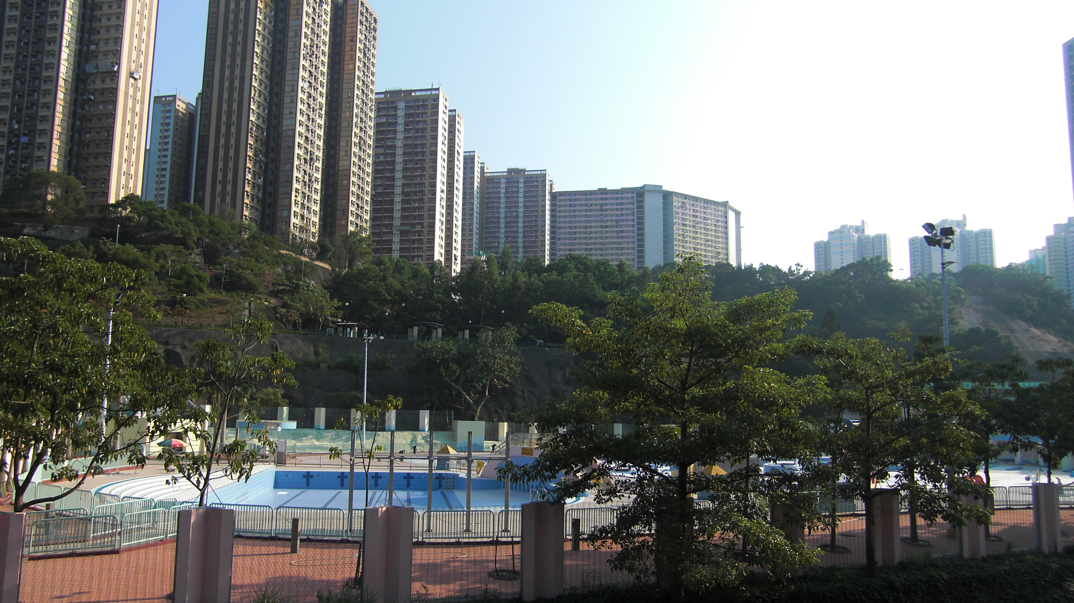 Looking towards the south from Jordan Valley Playground. Dragon Hill and Lok Nga Court are seen.